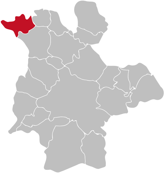 Location of the district Meiswinkel within Siegen, Germany. Red/Grey colors match the color scheme of Germany maps and information boxes in German Wikipedia. District is highlighted in red.